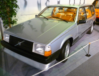 Volvo VCC, concept car, 1980, Volvo Museum, Arendal, Göteborg, Sweden. The VCC was giving a hint on how the 700 series released in 1982 would look like.